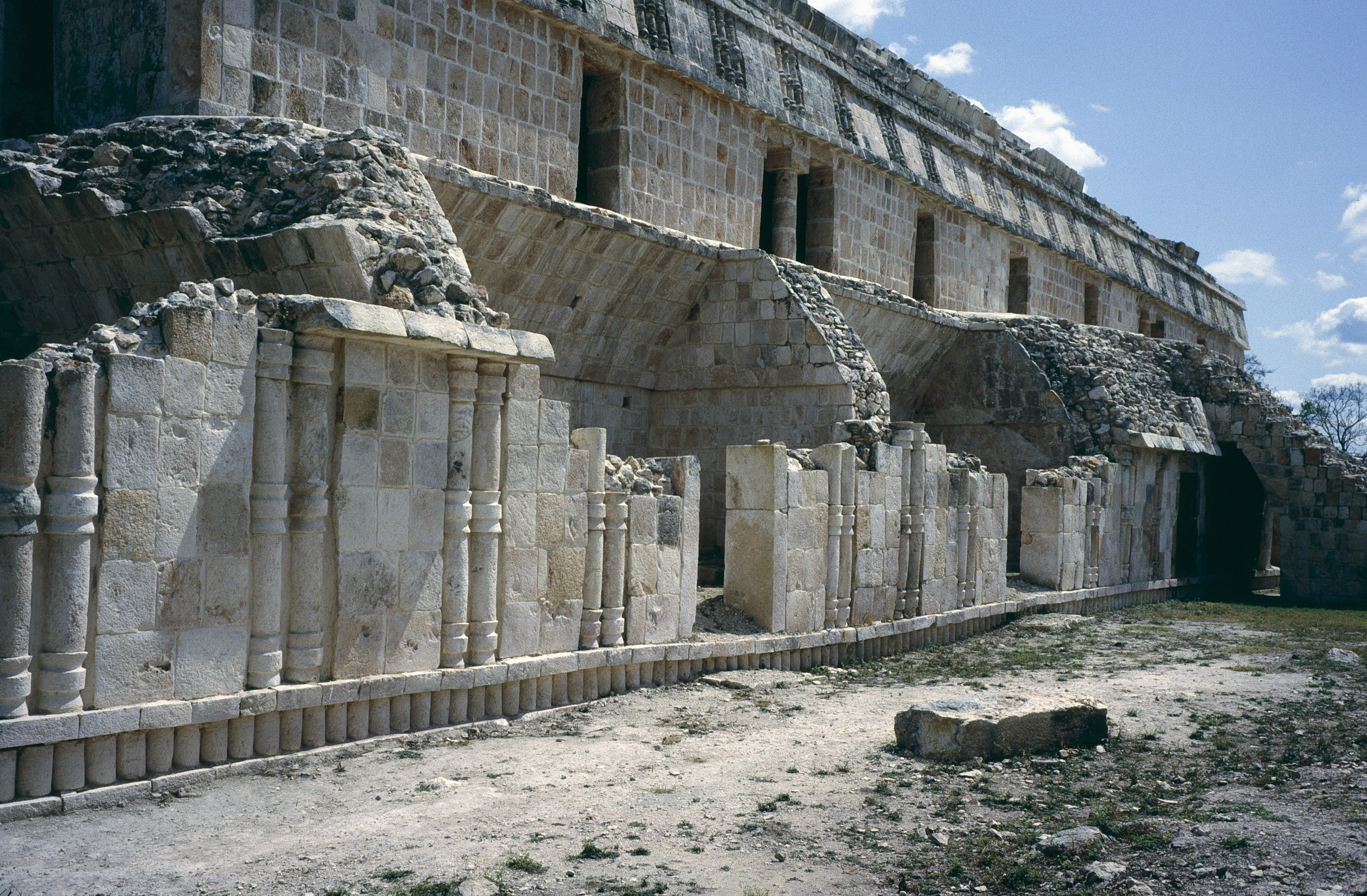 Kabah, Yucatan, Mexico: building 2C2 West Facade, detail